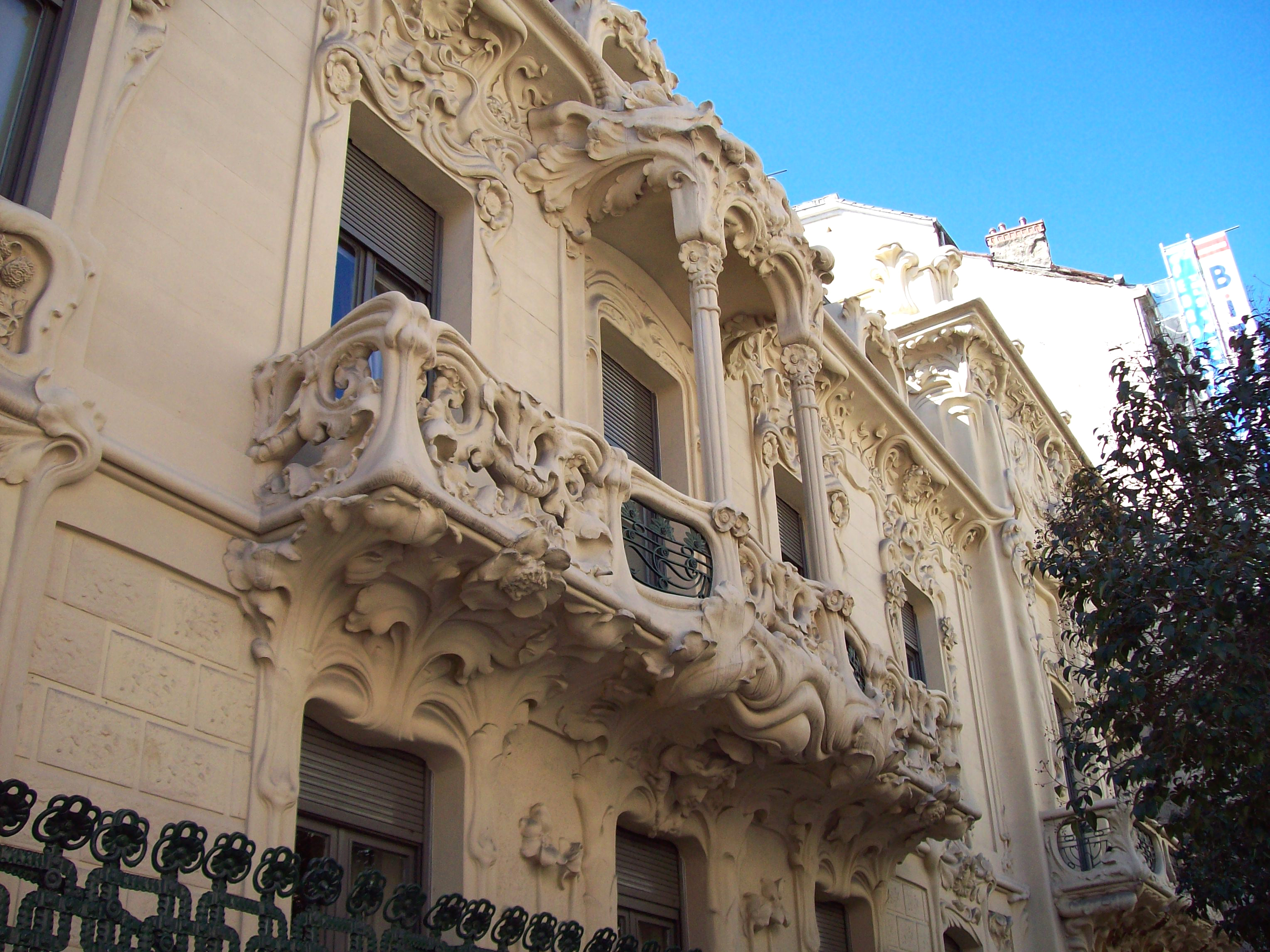 Balcony at the north-east façade (Calle de Fernando VI, street) of the Palacio Longoria in Madrid (Spain).